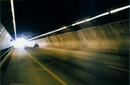 View of the insides of the tunnel. This is the one of the two tunnels that flows to the Monterrey side.